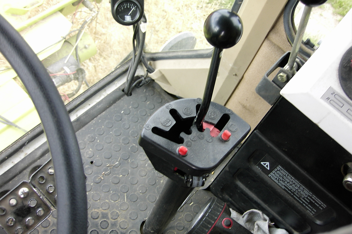 Inside of a Claas Dominator 68